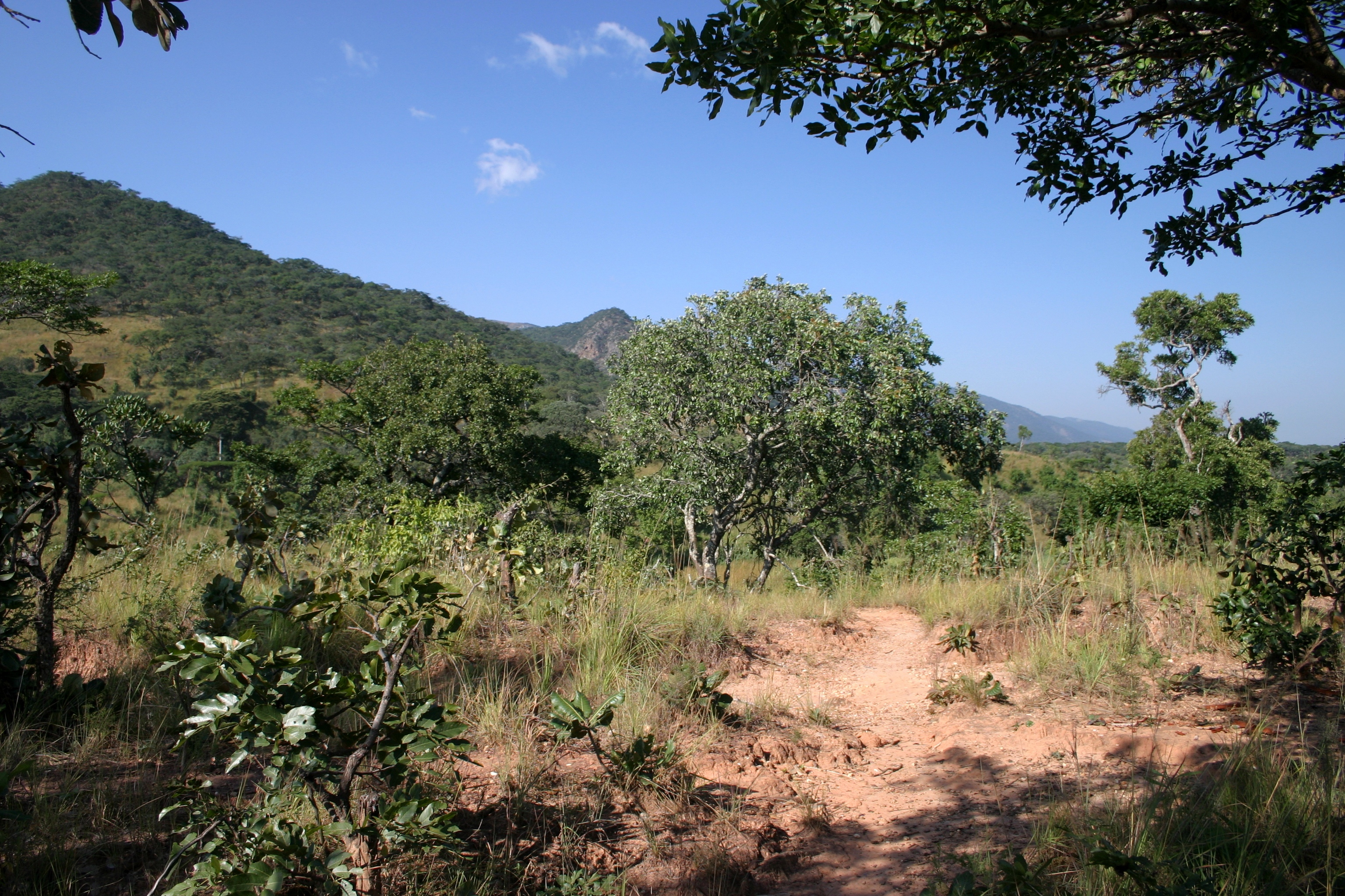 Typical Miombo Forest, Northern Nyika, Malawi